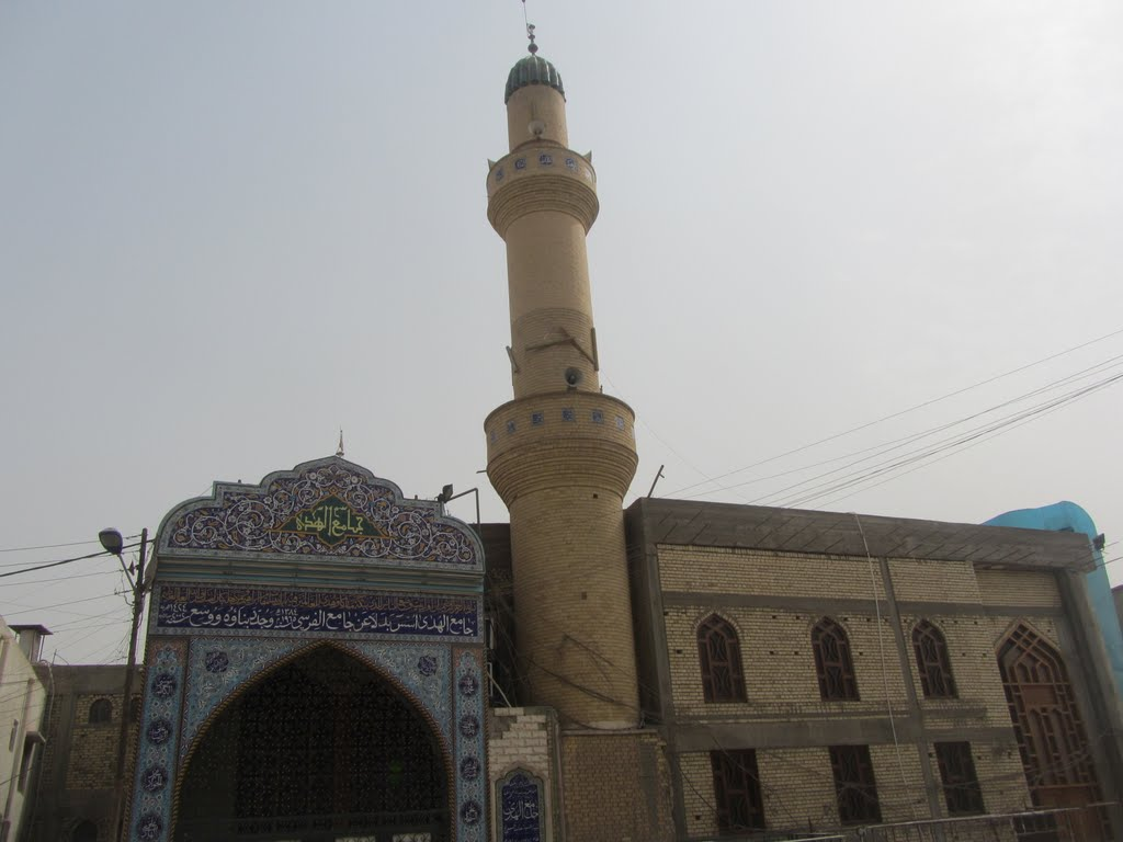 Syed Hamid mosque in Basra City, Iraq